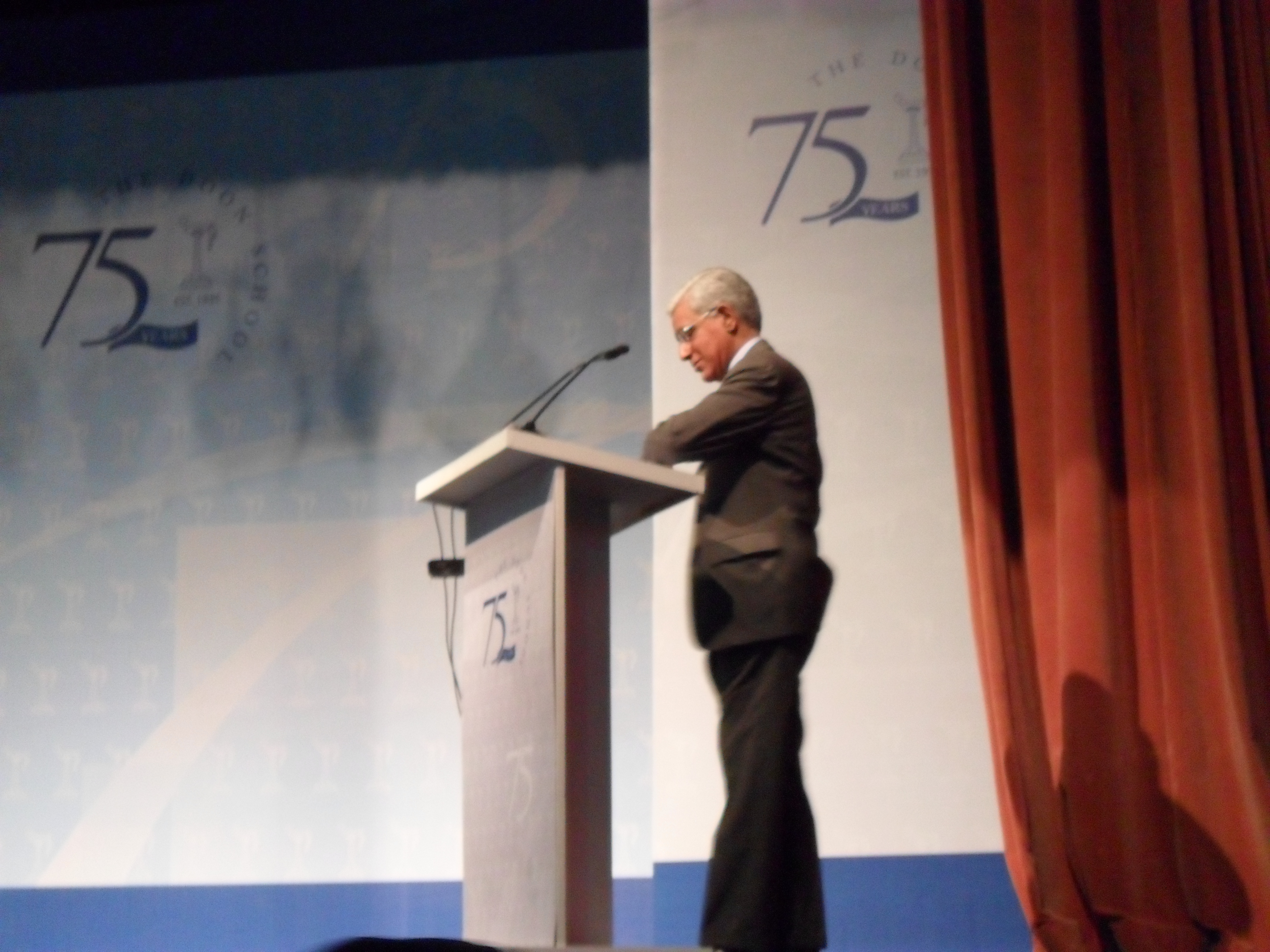 Karan Thapar hosting the Chandbagh Debate at The Doon School during its Platinum Jubilee celebrations.